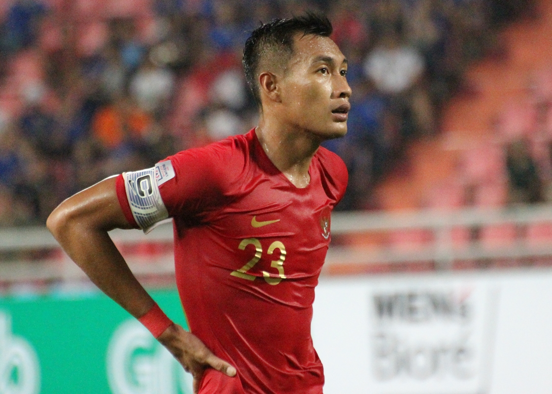 Hansamu Yama